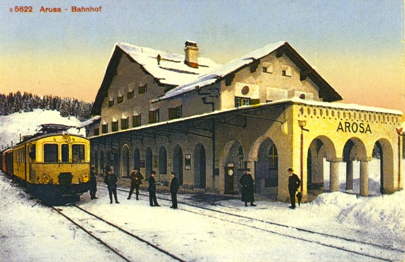 Train Station Arosa, original building (1914–1964)